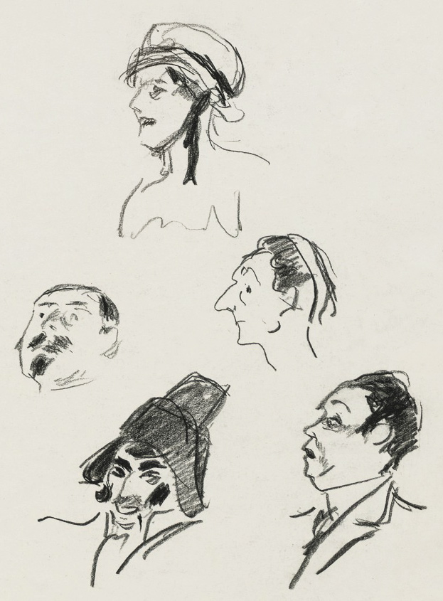 Jean Périer and other performers in the premiere of L'heure espagnole, Paris 1911.